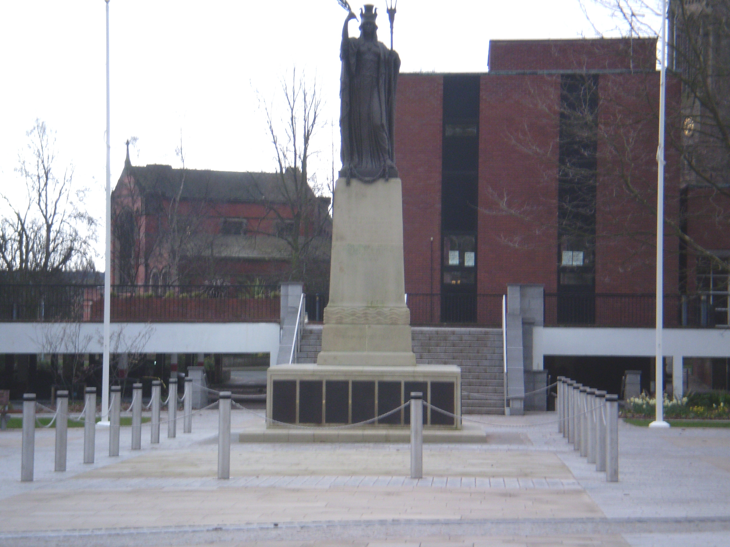 War Memorial, Crewe, Cheshire, UK. Moved to its' current location in 2006 after a local political crisis